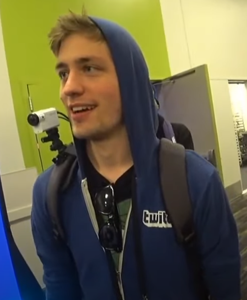 Sodapoppin at TwitchCon 2018